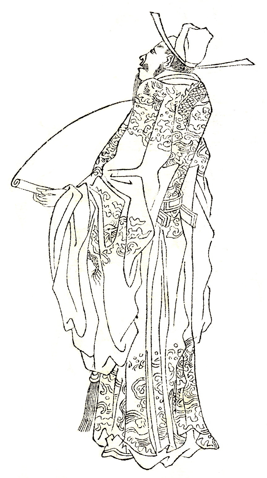 Di Renjie (狄仁傑) was a Chinese official famous for opposing corruption who twice served as the Chancellor of Tang, China.